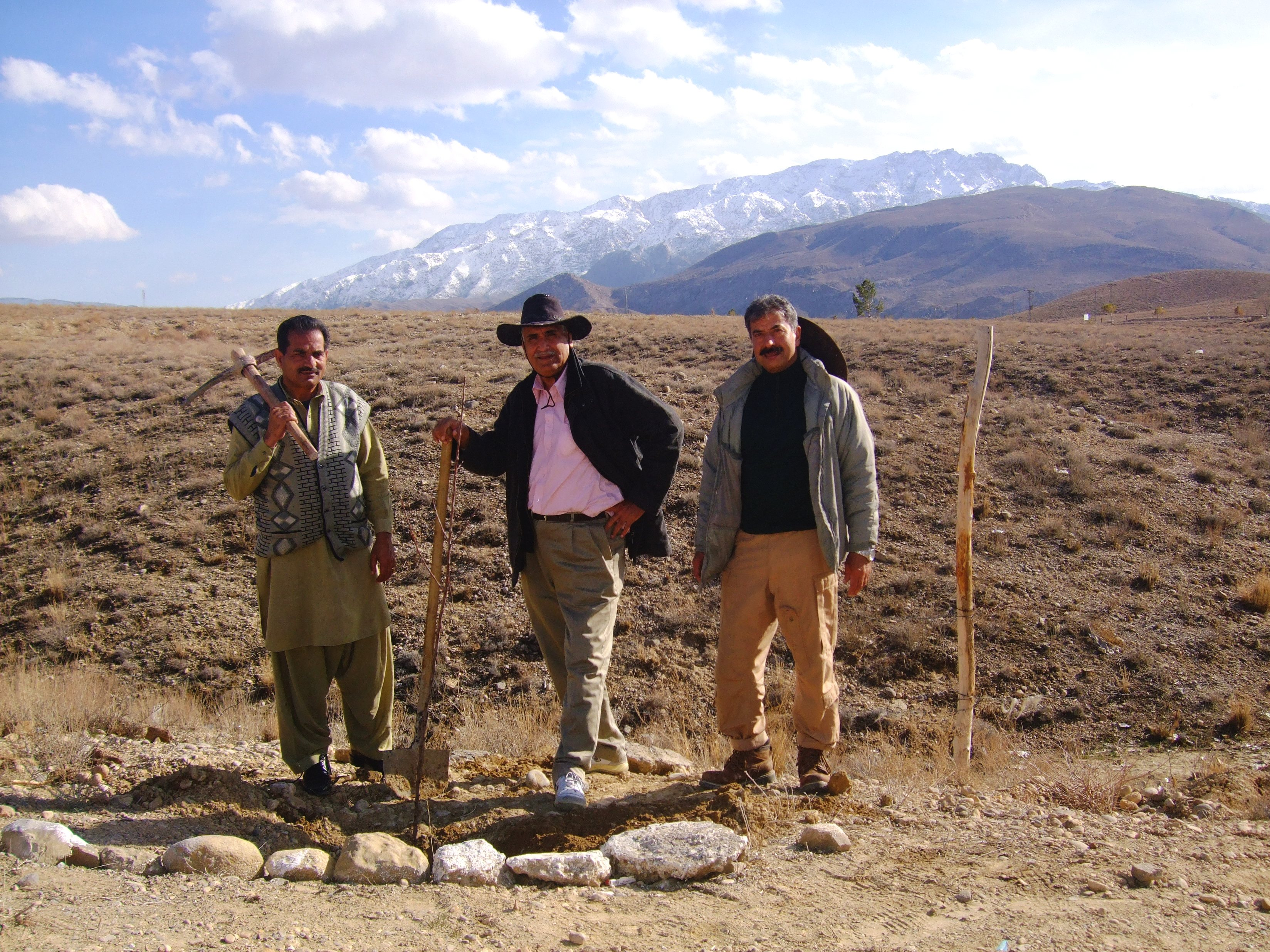 Munir Ahmed Badini Secretary Environment Balochistan planting tree with Hayat Durrani at HDWSA Hanna Lake as a protect environment project